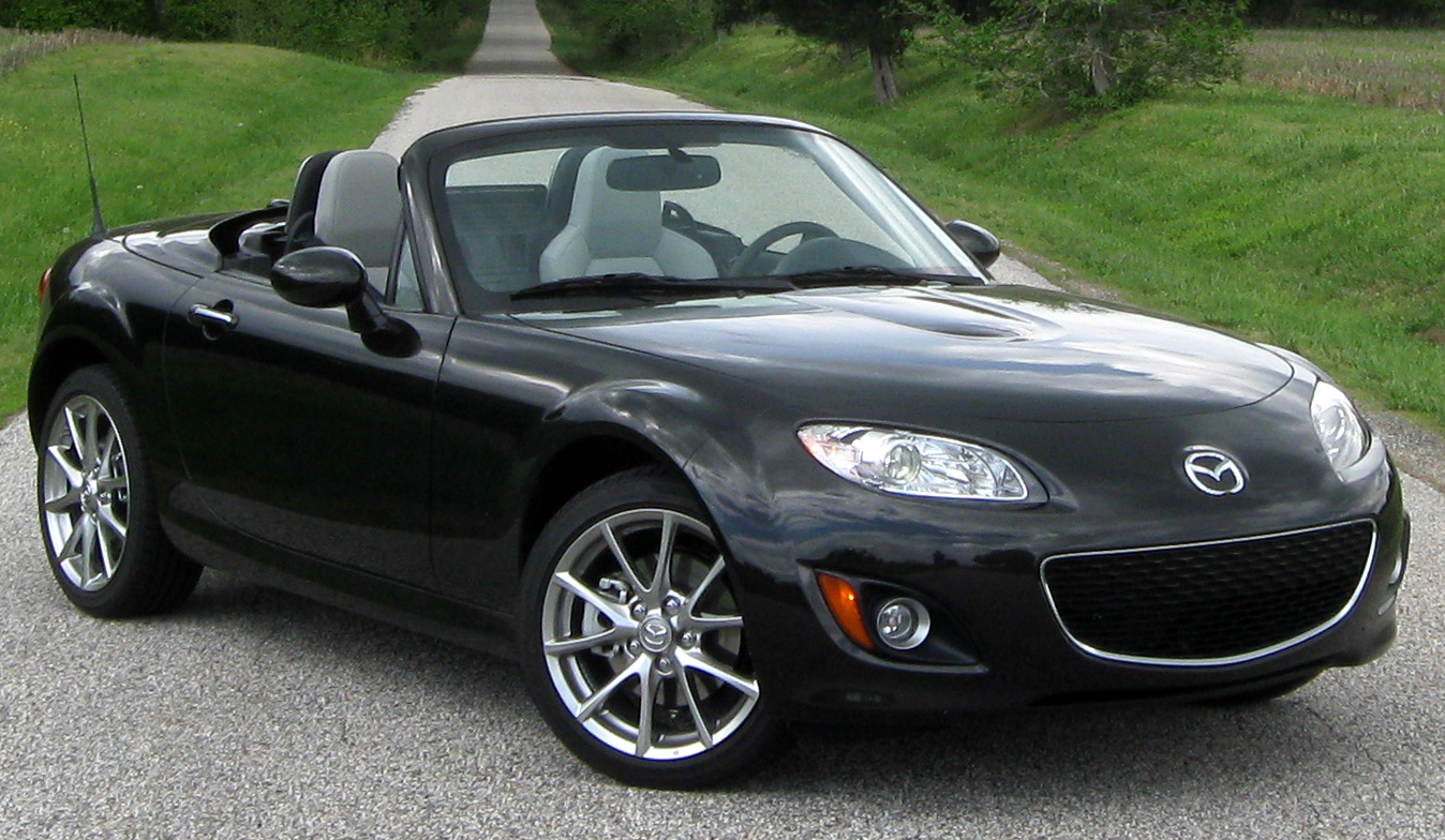 2011 Mazda MX-5 Miata Special Edition hardtop photographed in Riverside, Maryland, USA.